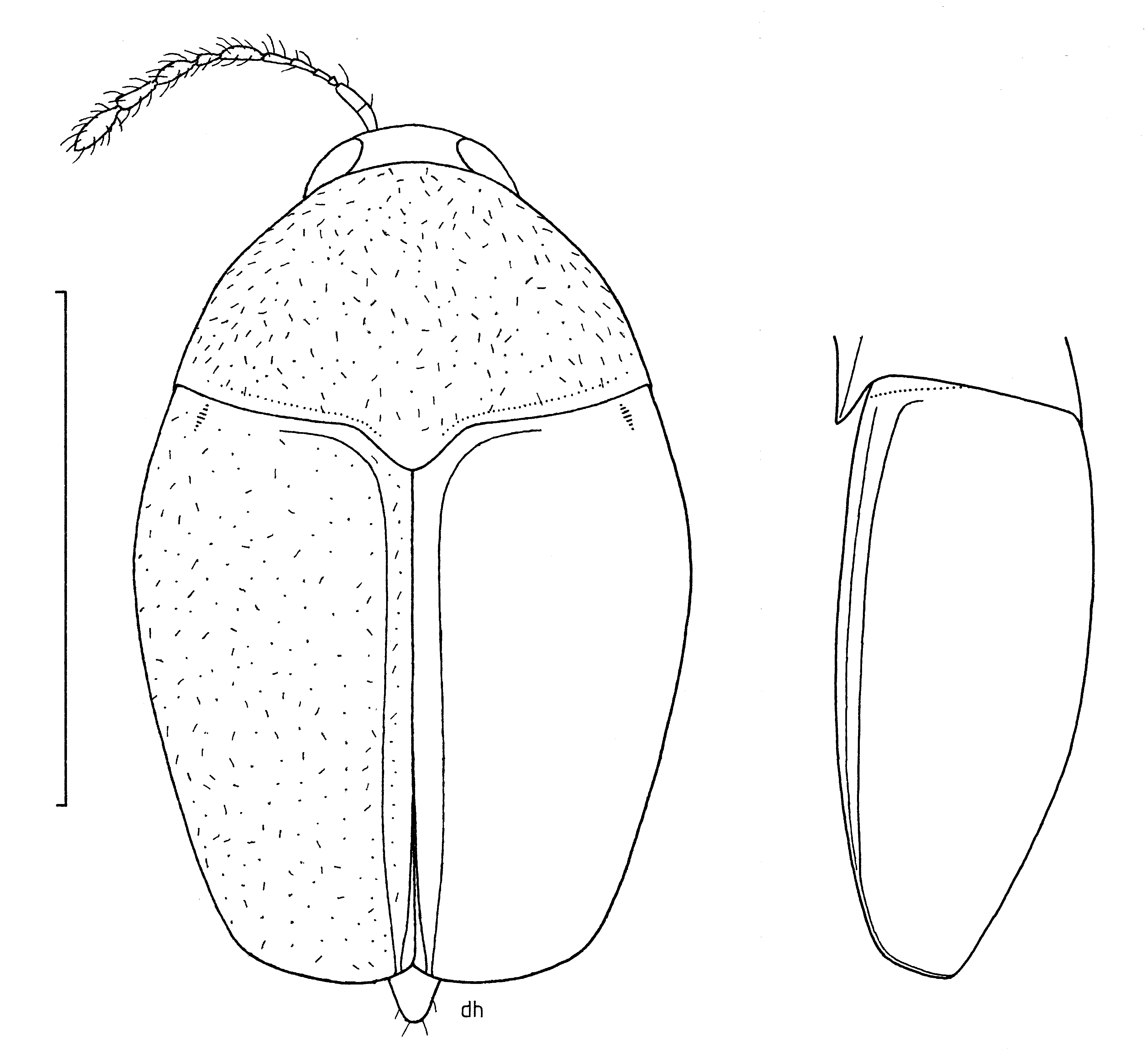 (Coleoptera: Staphylinidae) Scaphisoma hanseni illustrated by Des Helmore.